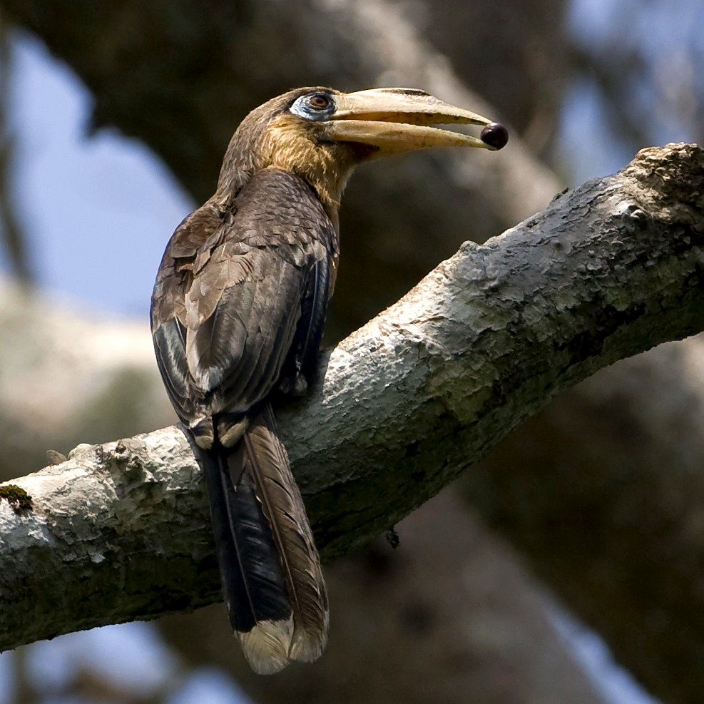 Tickell's Brown Hornbill (Anorrhinus tickelli). Kaeng Krachan, Thailand. The Red-Data status on this bird is "Near Threatened".